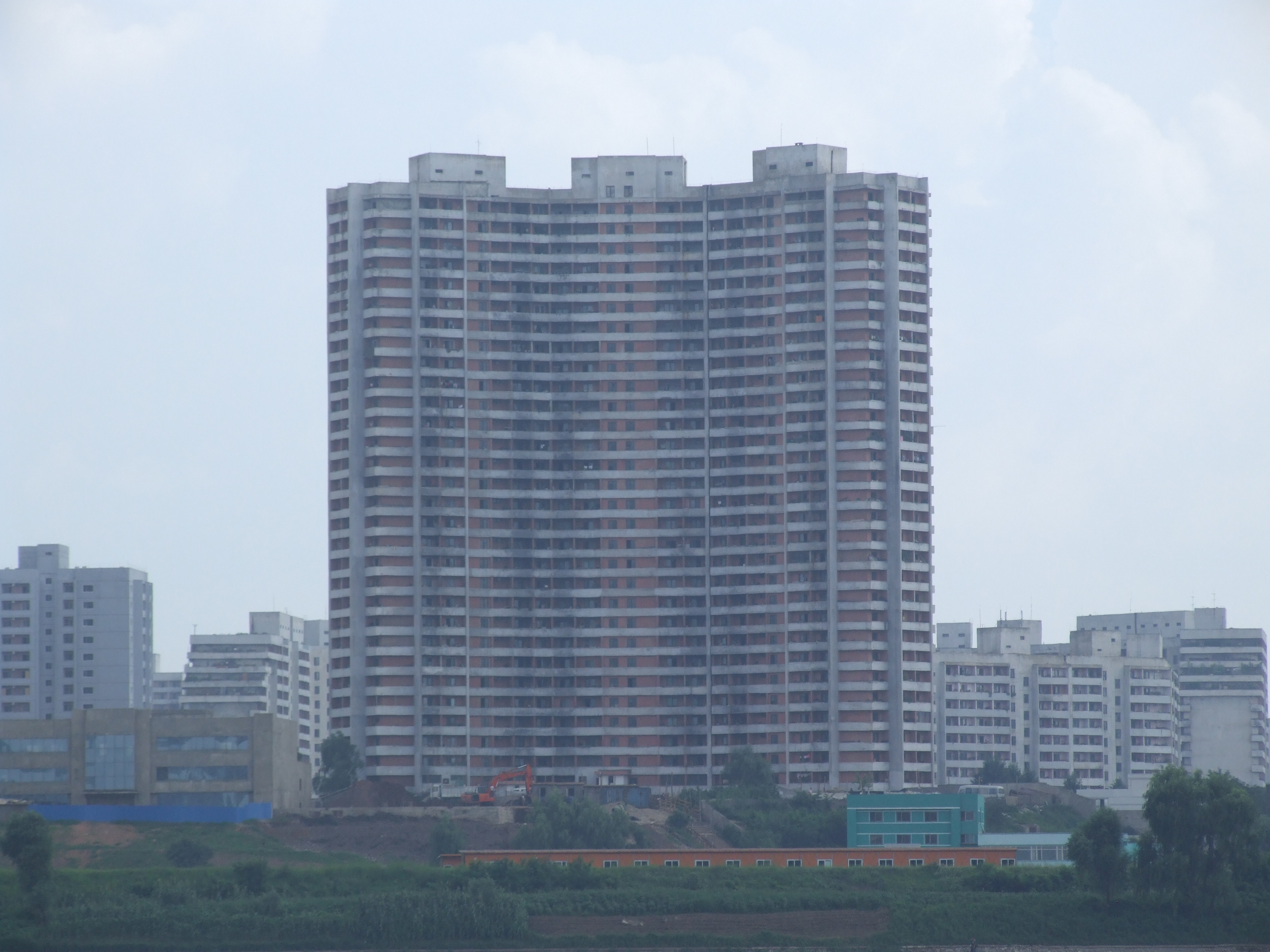 Building in Pyongchon-guyok, Pyongyang